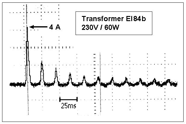 inrush current of a transformer 230V AC / 60W: asymmetric DC-containing pulses over several mains frequency periods